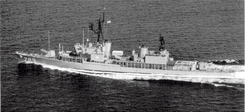 The U.S. Navy destroyer USS Eversole (DD-789) after FRAM I in 1960s.